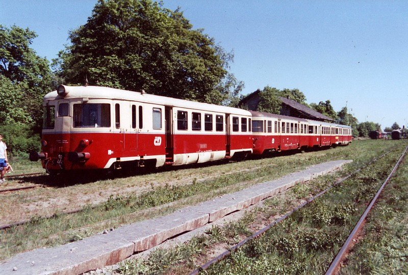 motor car ČSD M 240.0 in station Křimov, czech republic